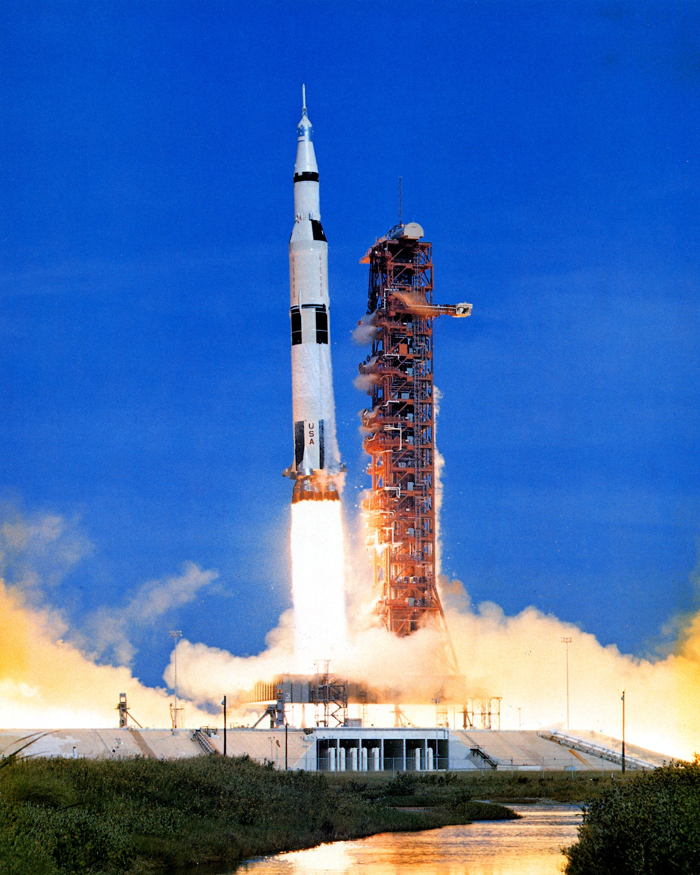 Launch of Apollo 15